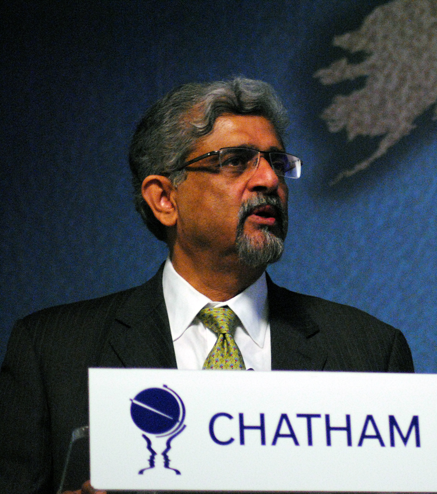 UNDP Human Development Report 2013: The Rise of the South, 10 April 2013 cht.hm/10Vcx7I